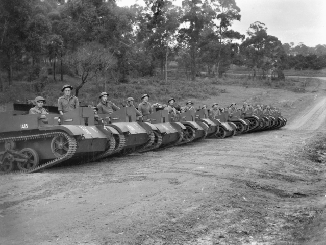 AWM Caption: ST IVES, NSW. 1943-06-12. BREN GUN CARRIERS OF THE 13/33RD AUSTRALIAN INFANTRY BATTALION, AIF. PERSONNEL ARE: LEFT TO RIGHT - NX118353 SERGEANT (SGT) J. H. CURNOE; NX118373 CORPORAL (CPL) D. J. HALLIDAY; NX121649 SGT M. J. CROSS; NX107052 PRIVATE (PTE) W. A. ROOKE; NX121726 CPL N. R. JOYCE; NX110158 CPL N. L. ROWLAND; NX129196 PTE L. M. COWAN; NX107147 PTE L. R. MARCHANT; NX118346 SGT B. MAYERS; N296815 PTE D. G. DUNN; NX146940 CPL J. METCALF; NX129953 PTE S. B. MONLEY; UNIDENTIFIED; UNIDENTIFIED; NX101174 CPL C. R. PHILLIPS; UNIDENTIFIED; NX118357 CPL H. T. CLOUGH.